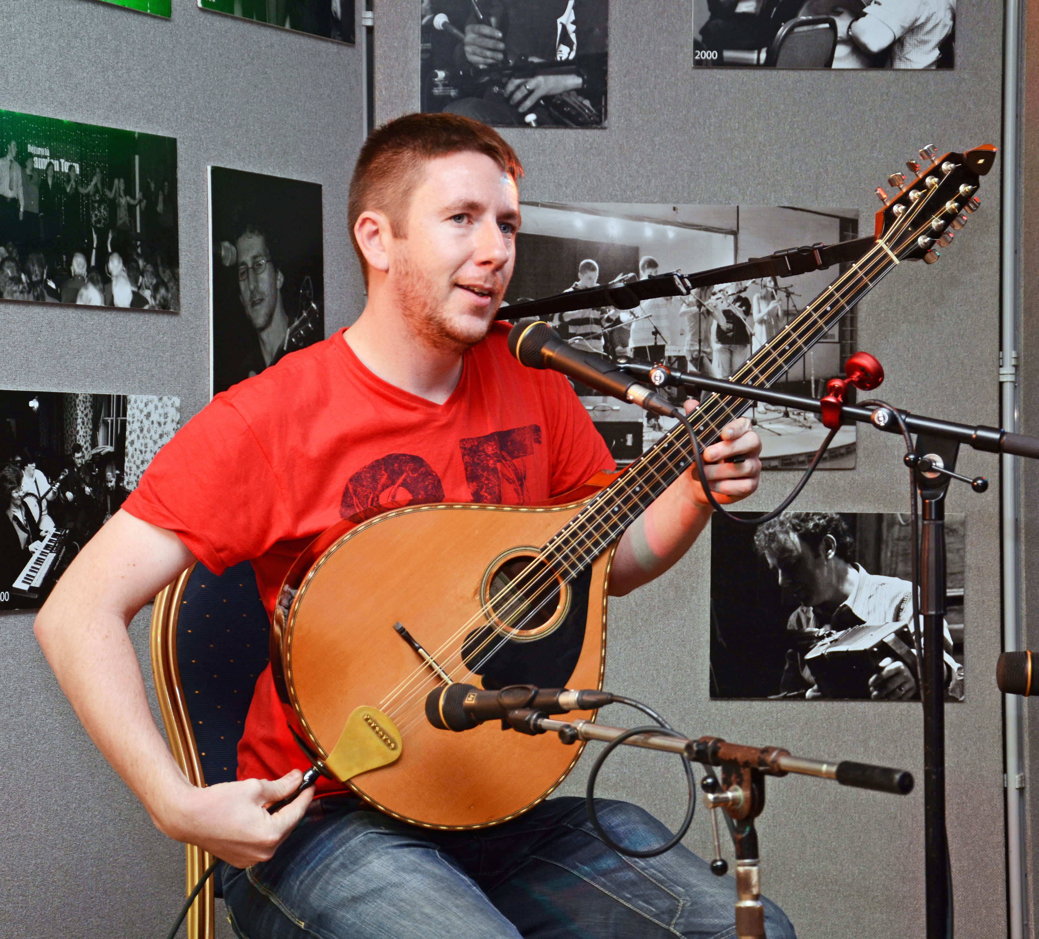 Return to Camden Town Festival, London Irish Centre, Saturday 26 October 2013.